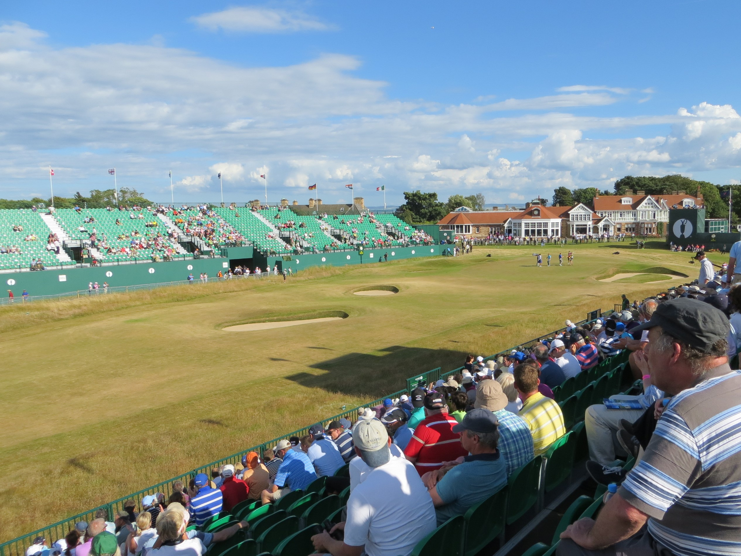 18th, late in the evening, Day One of The Open July 2013, Muirfield, Scotland